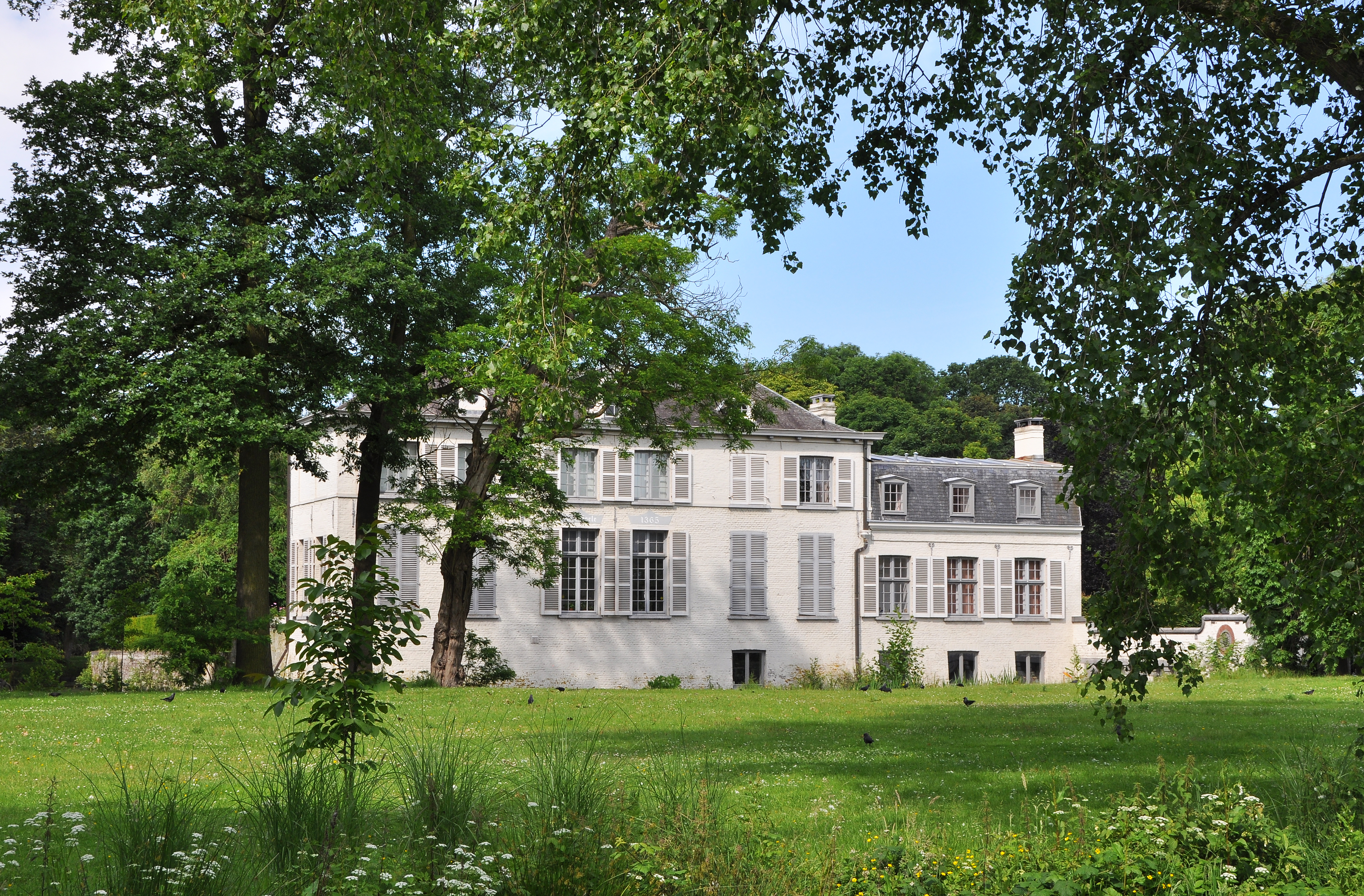 Bruges (Belgium): Ten Poele manor